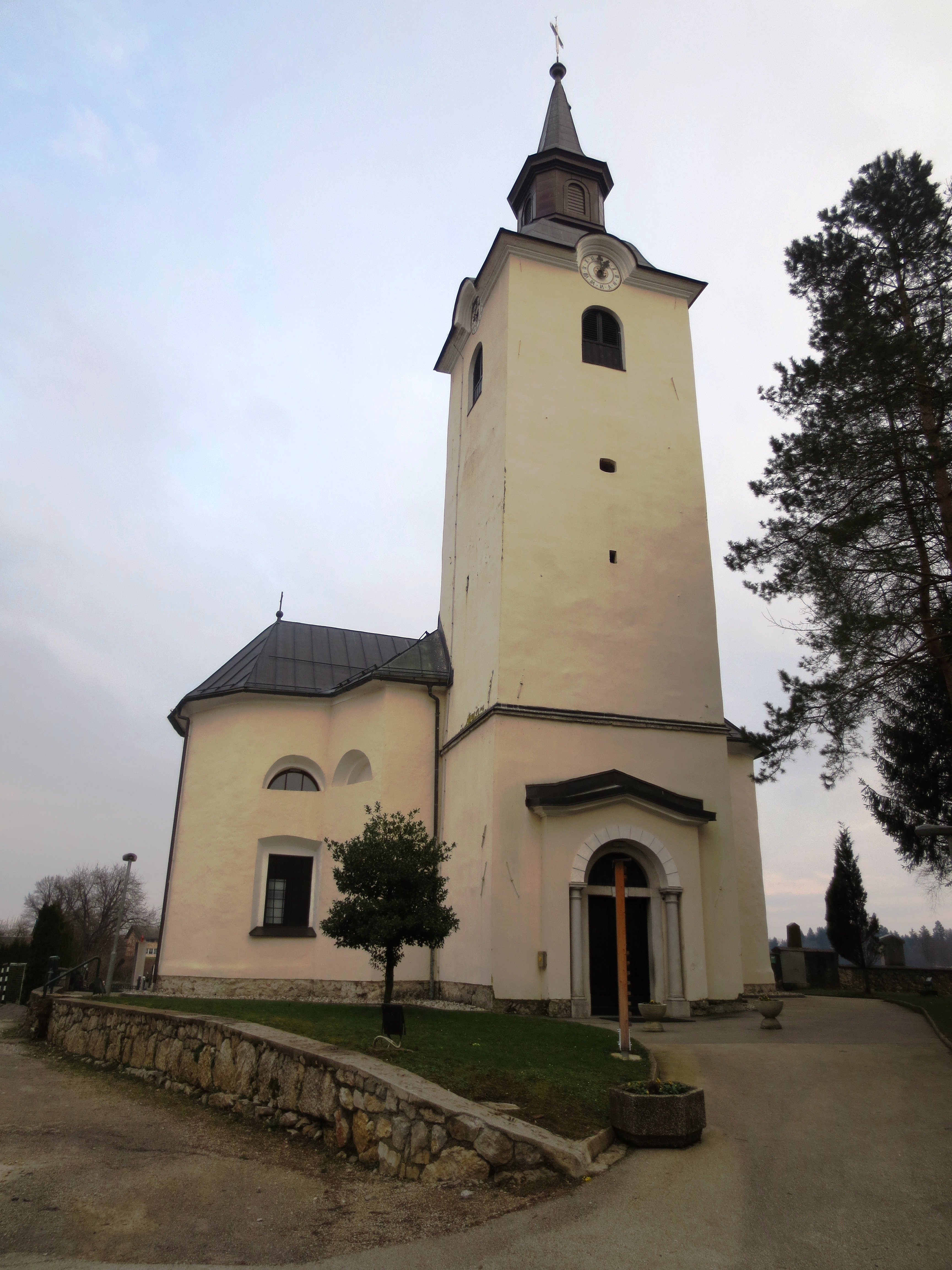 Vavta vas church of st. Jacob